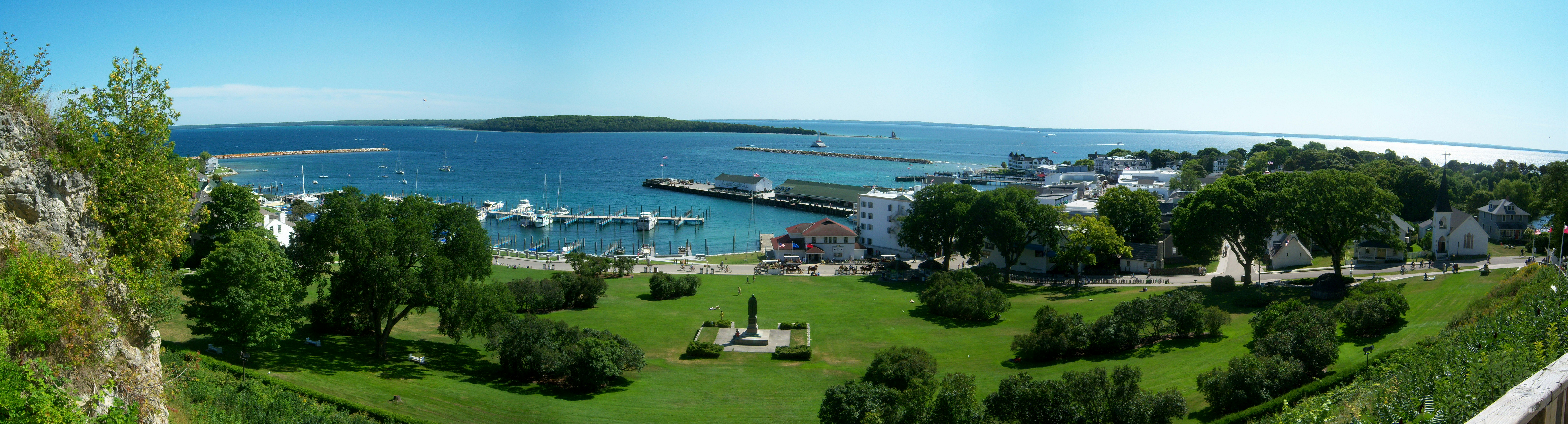 Panorama of Marquette Park from atop Fort Mackinac, with the Round Island Channel in the background and downtown Mackinac Island to the left